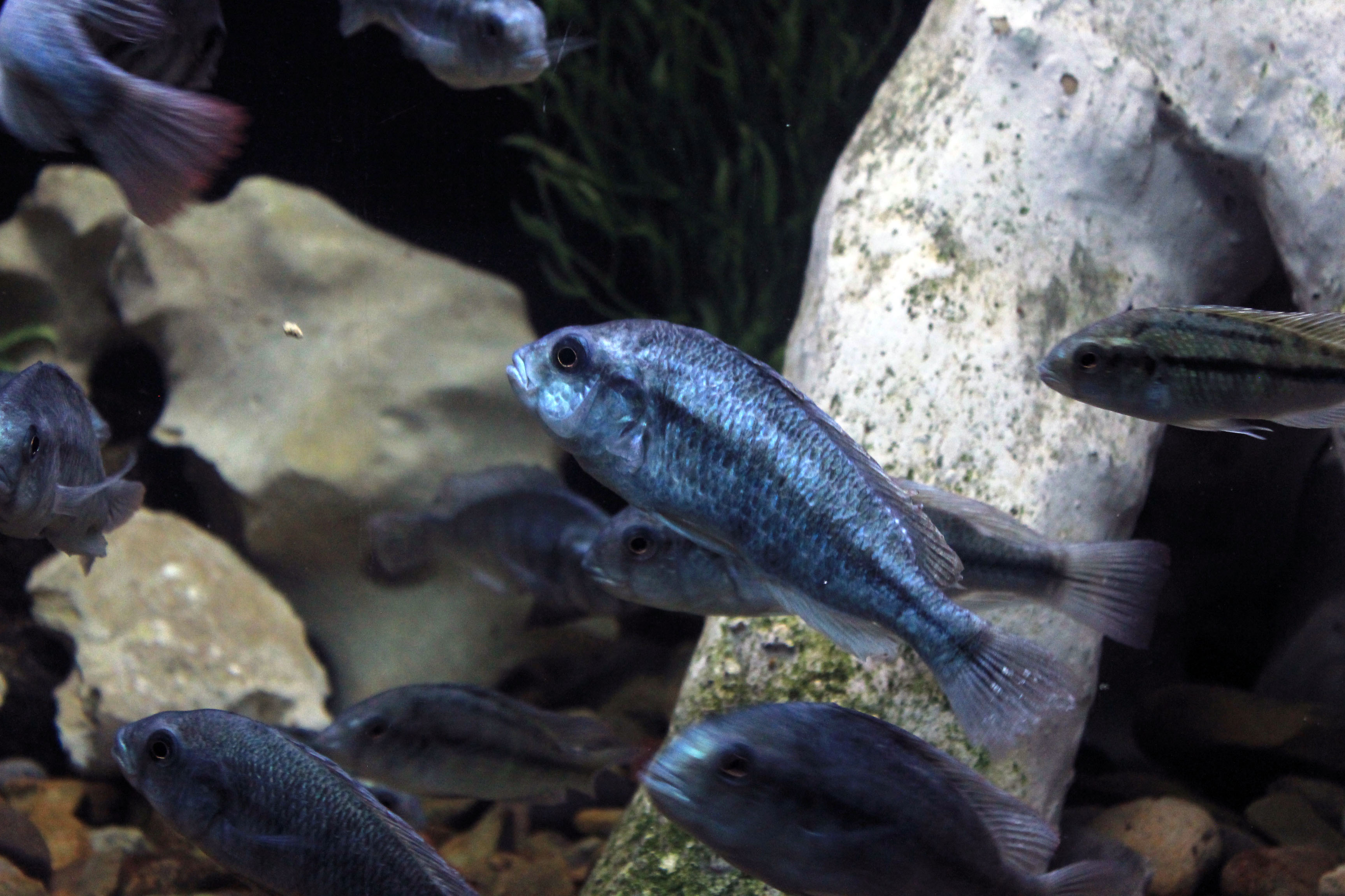 Different types of fishes A Degeni Cichlid among the rocks(Haplochromis Degeni).